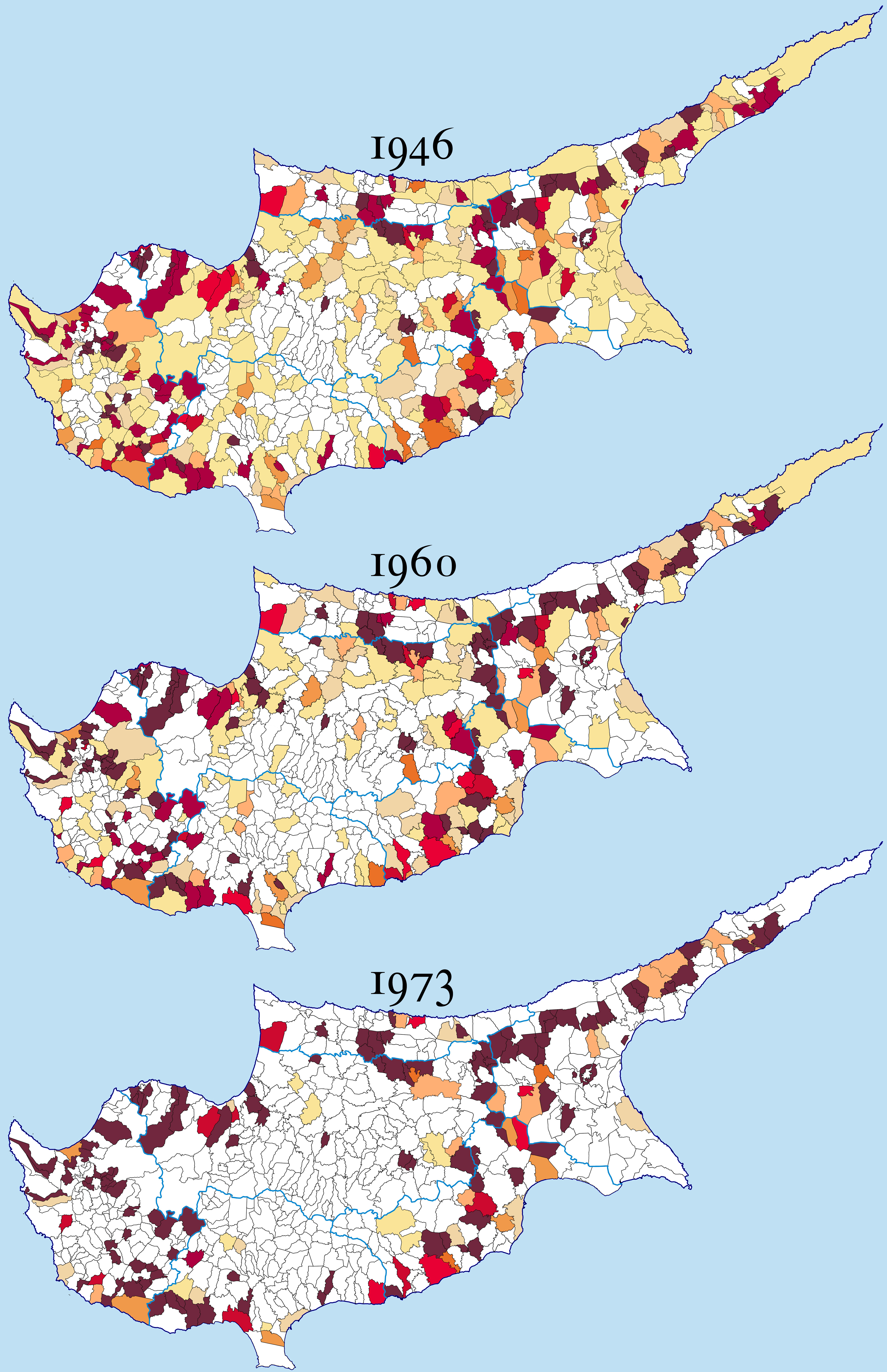 Distribution of Turkish-Cypriot population, according to the 1946, 1960 and 1973 censuses.